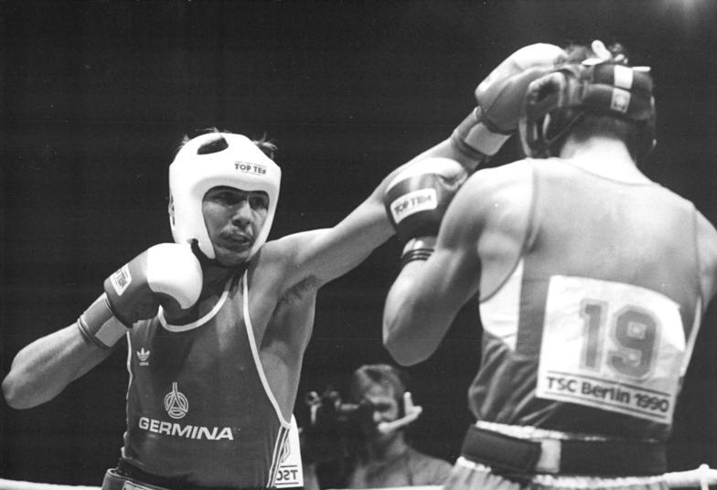 Berlin, TSC-Boxturnier, Andreas Zülow, Noriyuki Imaoka ADN-Bernd Settnik 6.10.90 Berlin: 21. Internationales TSC-Turnier im Boxen-Halbfinalkampf im Halbweltergewicht- Der 6fache DDR-Meister und Olympiasieger Andreas Zülow aus Schwerin (l) besiegte den japanischen Vize-Landesmeister Noriyuki Imaoka mit 91:7 Punkten. Information added by Wikimedia users.Source says "Noriyoko Imaoka", but the correct name of this Japanese boxer is "Noriyuki Imaoka". [1][2]